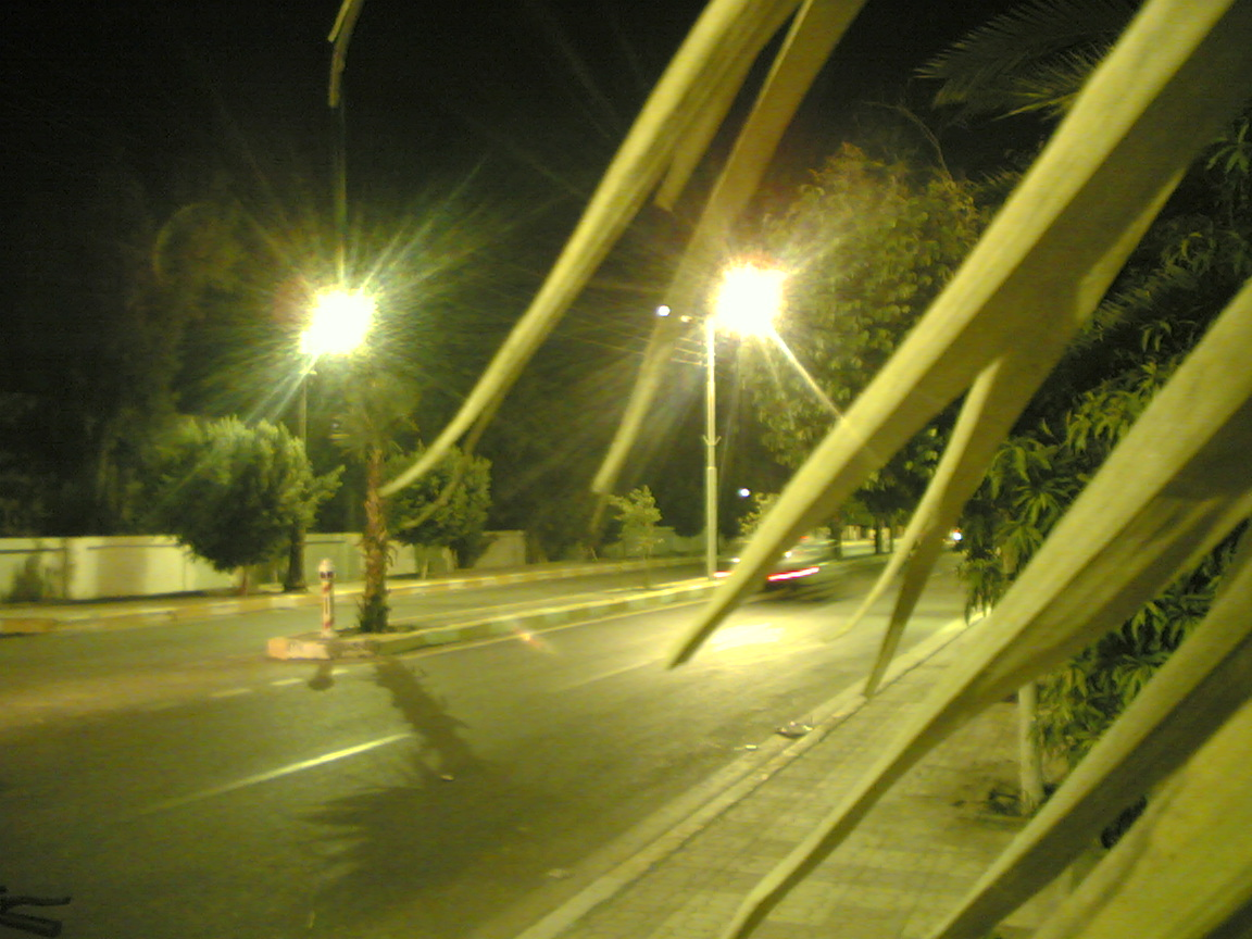 A view showing the entrance of El-Kharga Oasis in New Valley Government in Egypt